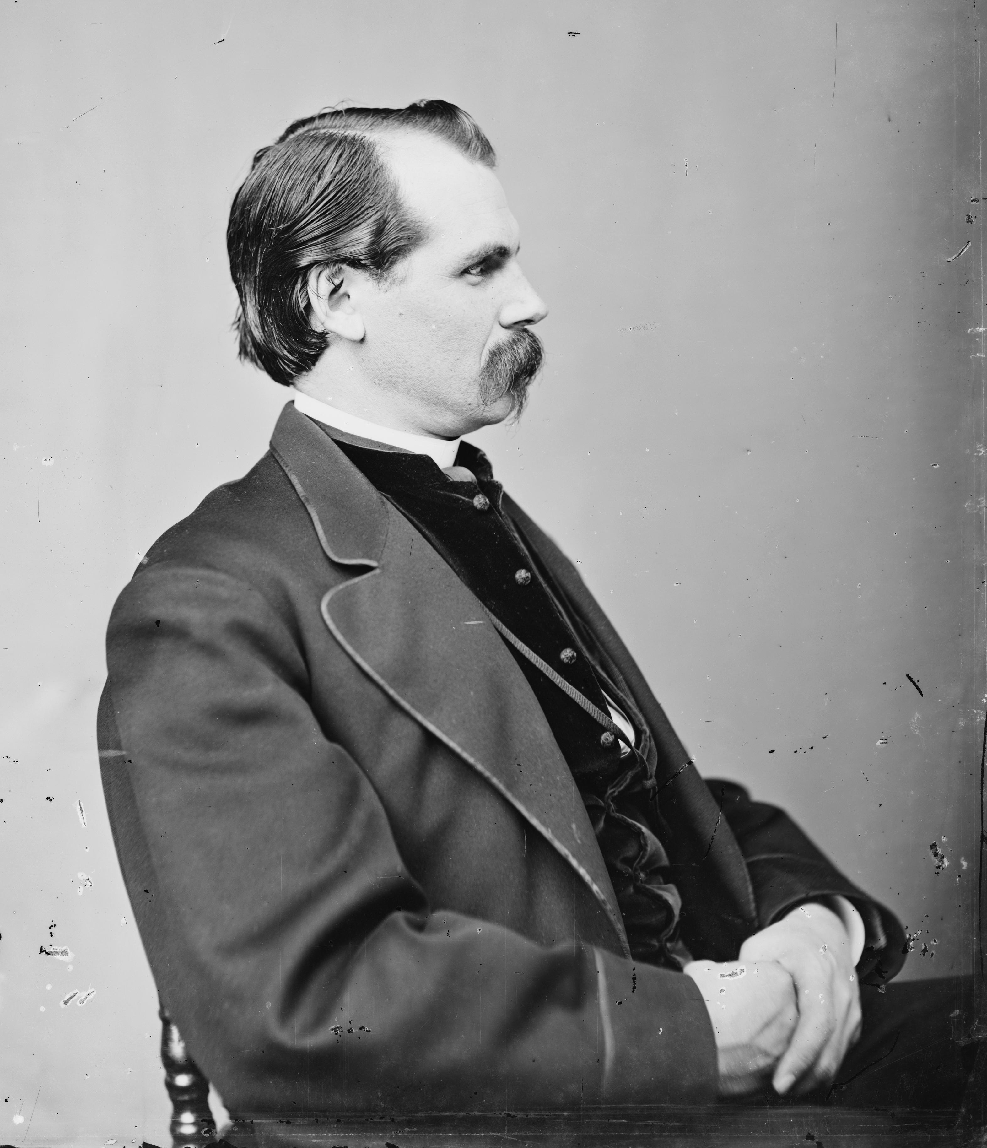 Thaddeus S. C. Lowe. Library of Congress description: "Lowe, Prof. T.S.C. (military balloonist)".